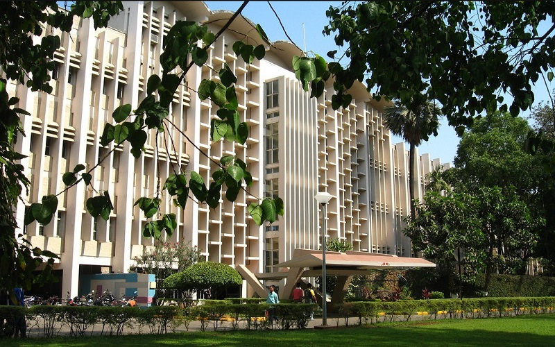 Main Buidling of IIT Bombay